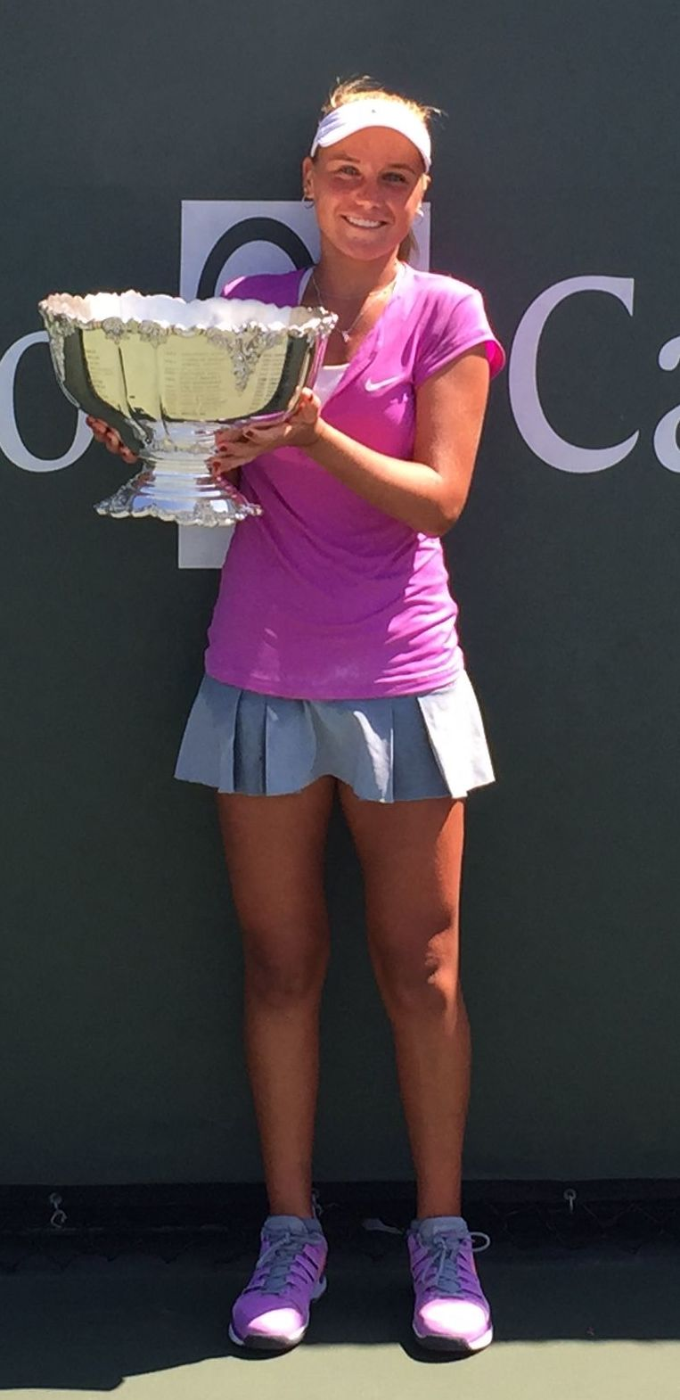 San Diego Hard Courts National Champion - Wild Card into US Open Sun, August 09, 2015